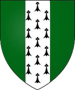 Vert, A Pale Ermine - The coat of arms of McDonald of Goxhill, England